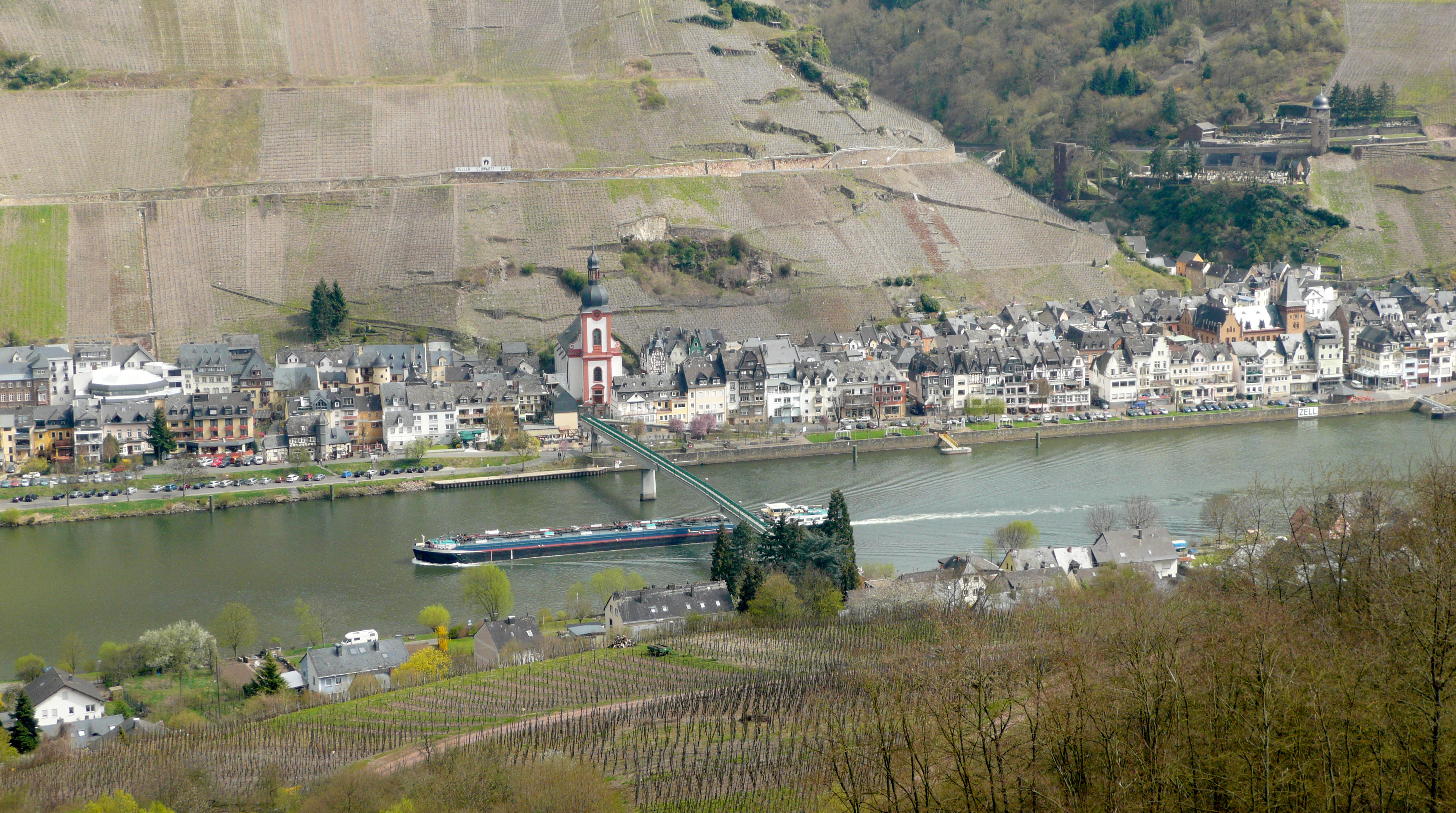 Zell at Mosel river